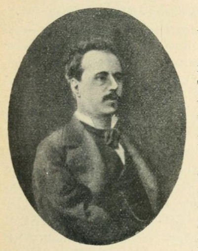 Portrait of the Italian painter Eduardo Dalbono. In "Illustri italiani contemporanei" by Onorato Roux (Firenze, 1908)